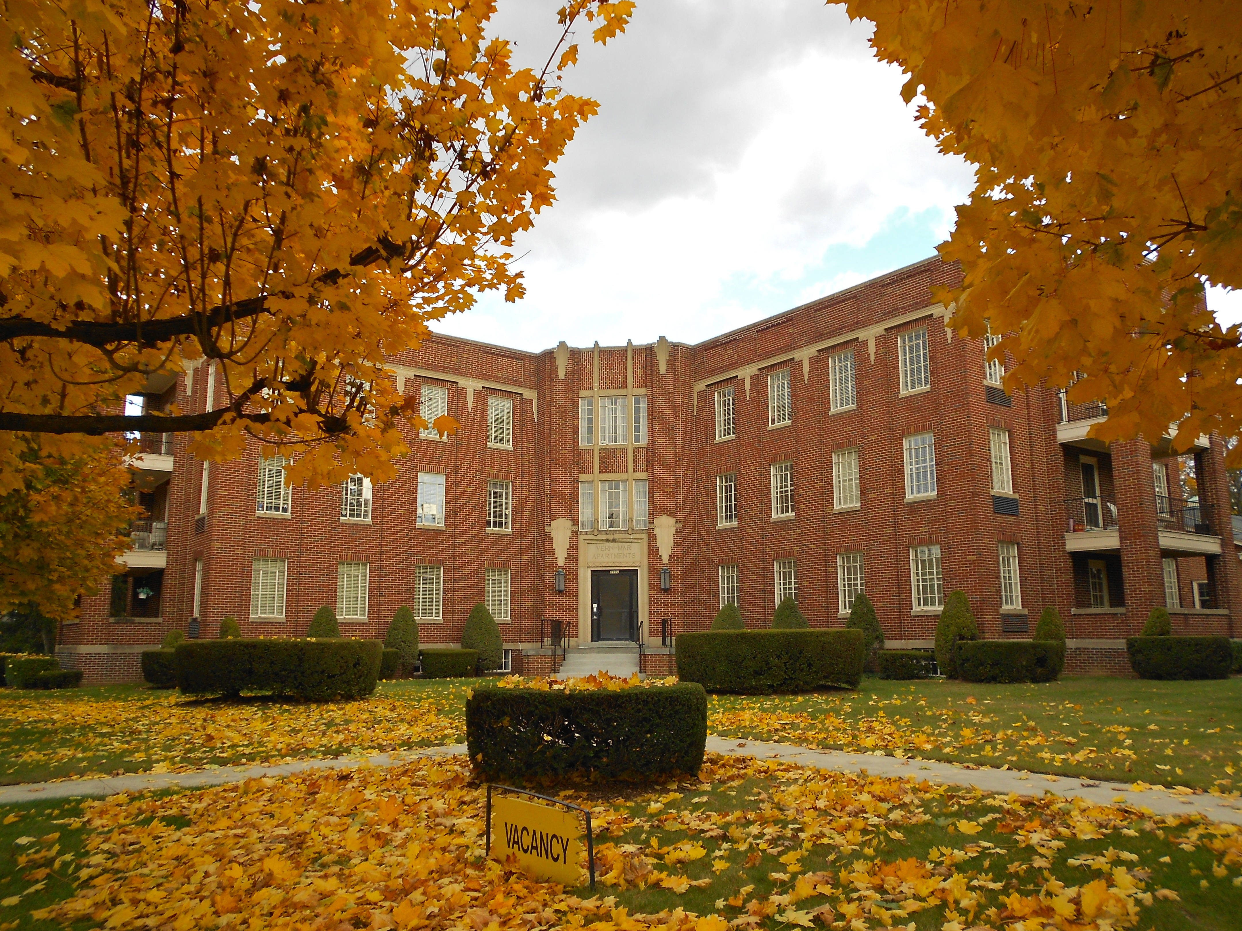 Apartment Building on Market Street in the East York Historic District listed on the NRHP on March 12, 1999. The district is bounded by Oxford Street, Wallace Street, Royal Street, and Eastern Boulevard, in Springettsbury Township, just east of the city of York, in york County, Pennsylvania